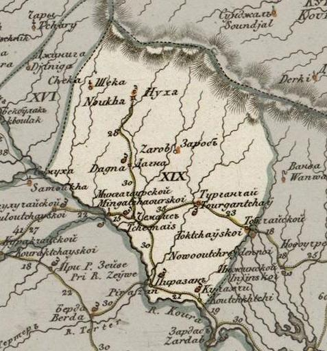 Sheki Khanate in the map of Caucasus